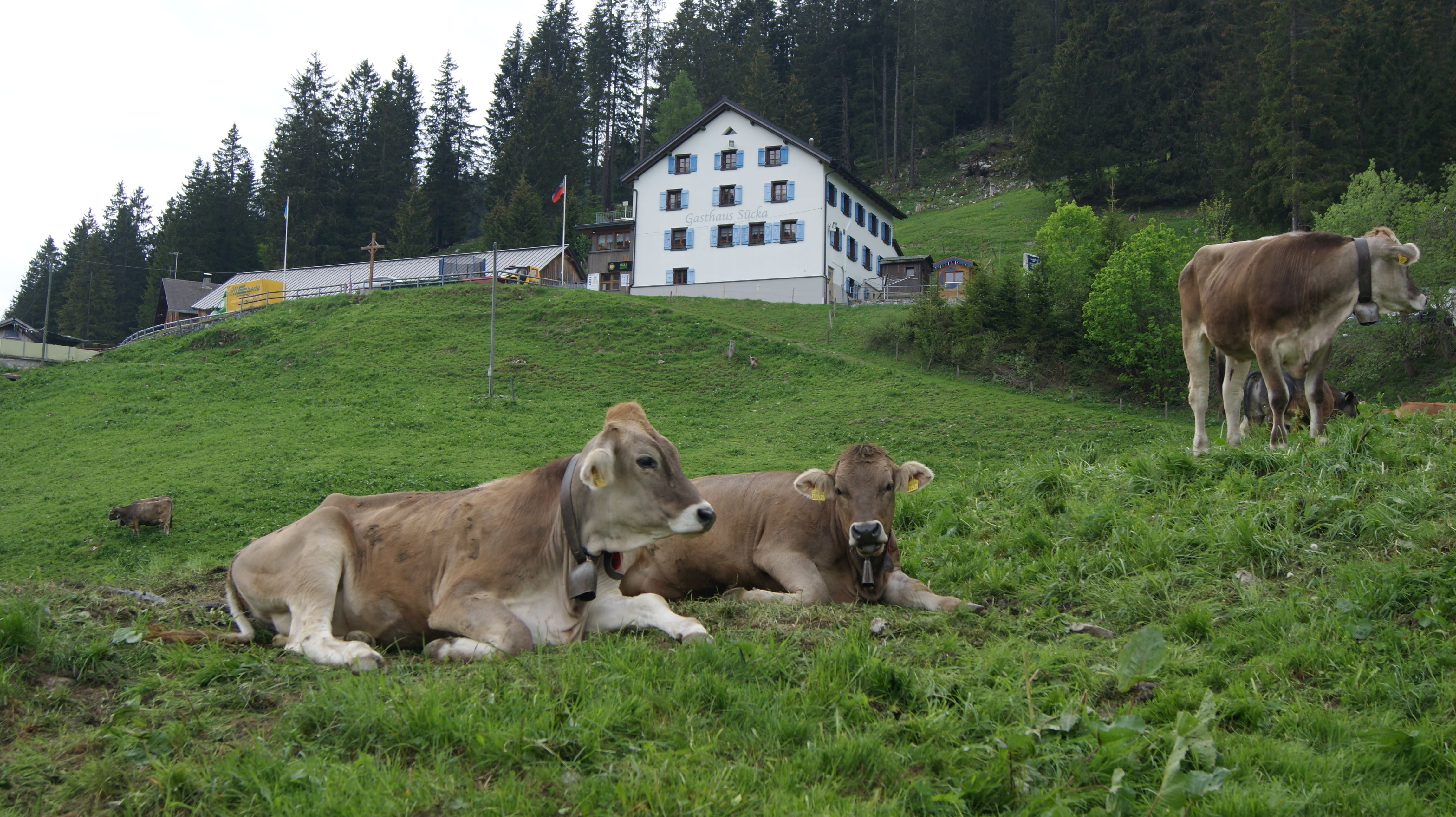 Steg in the Principality of Liechtenstein. Calves in front of Gasthof Sücka.